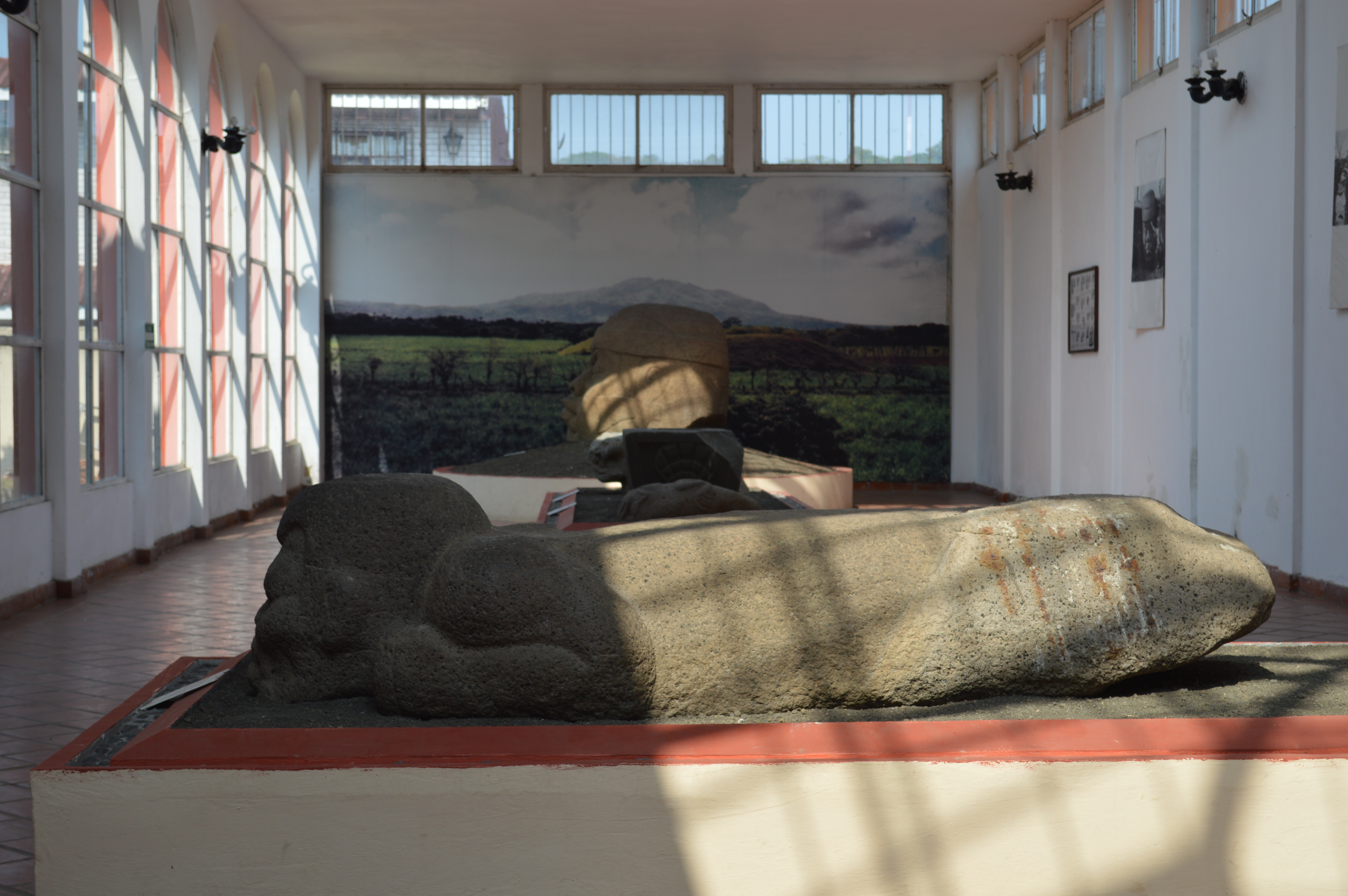 "El Negro" Olmec monumental stone sculpture from Tres Zapotes at the Museo Regional Tuxteco in Santiago Tuxtla, Veracruz, Mexico